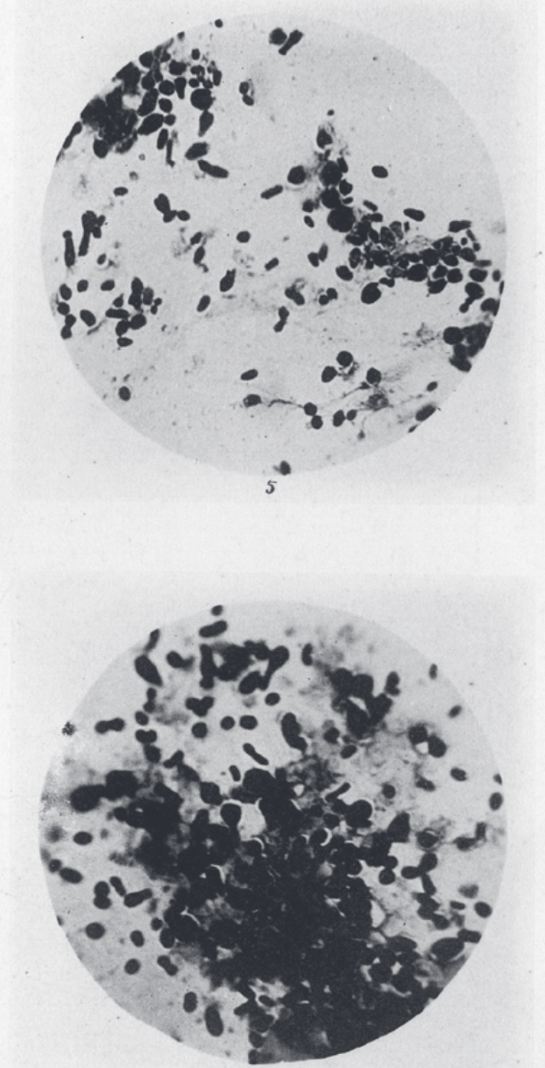 Microbiological cultures of the plague bacillus isolated in Porto, Portugal during the 1899 epidemic by Ricardo Jorge; photographs by fellow physician António Plácido da Costa. In the collection of the Maximiano Lemos Museum of History of Medicine (Faculty of Medicine of the University of Porto).